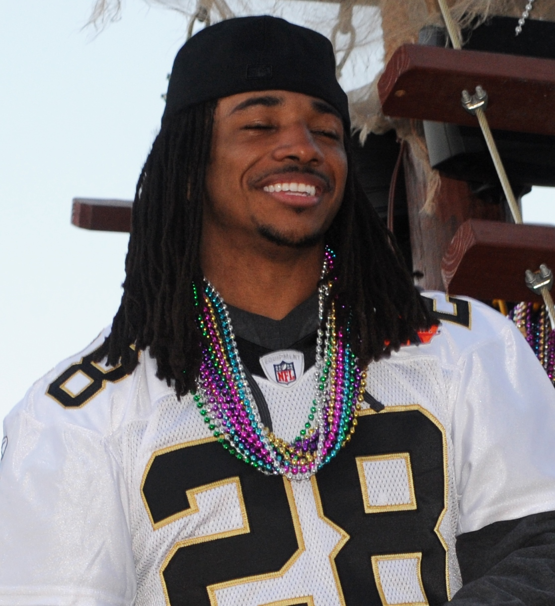 February 9, 2010